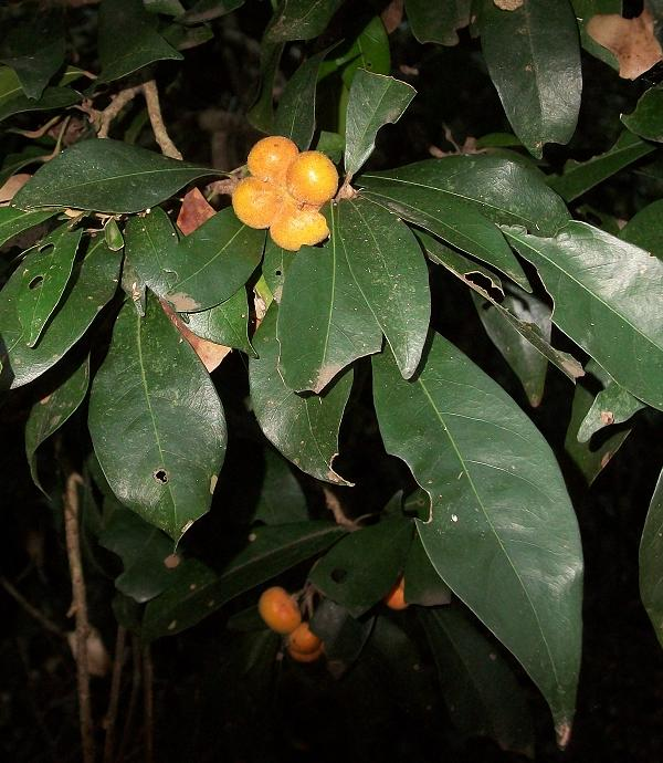 Cola greenwayi var. greenwayi at Nibela Peninsula, Lake St Lucia, KwaZulu-Natal, South Africa.